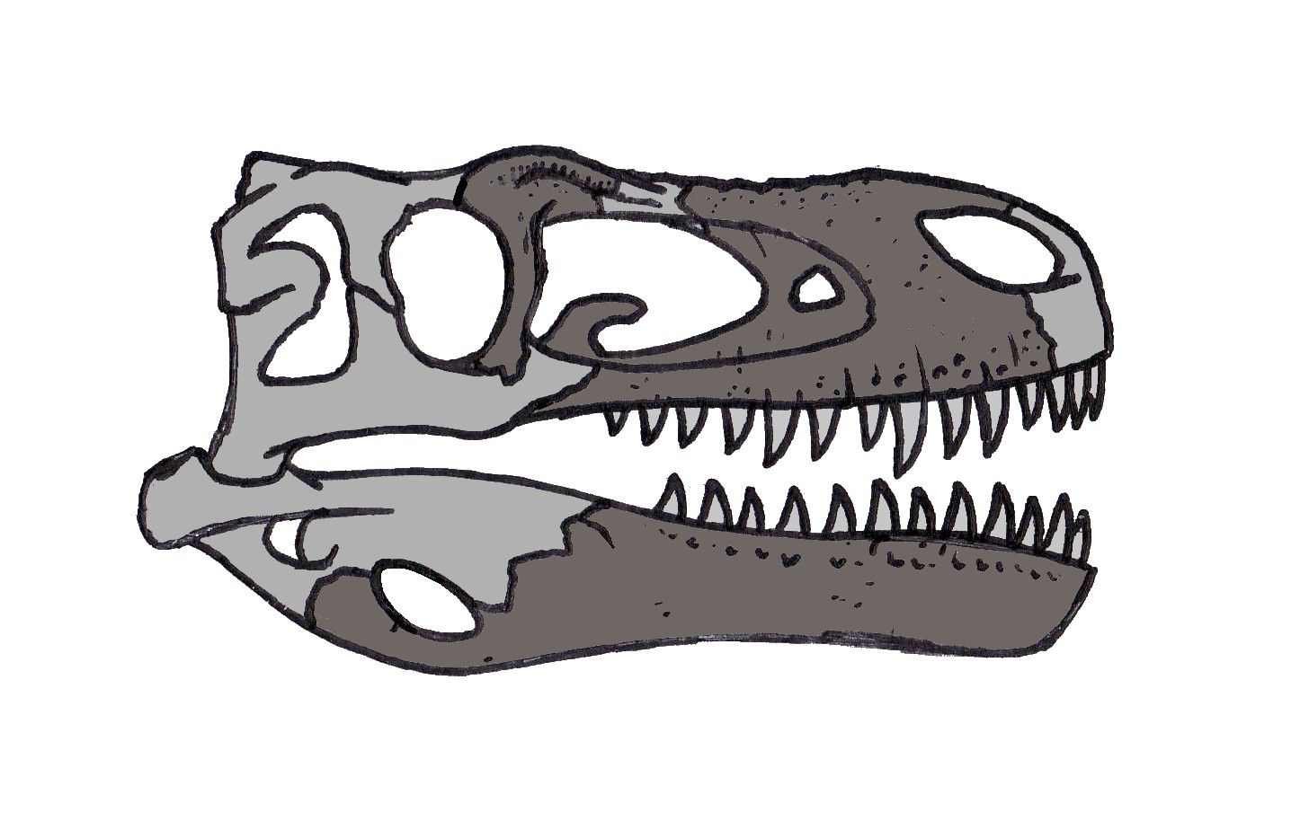 Illustration of the holotype skull to the theropod dinosaur Appalachiosaurus montgomeriensis.[1] Appalachisaurus was a relative to Tyrannosaurus rex, and lived in southeast USA. Missing pieces of skull reconstructed in light grey, based on skulls from Gorgosaurus and Albertosaurus. References ↑ Schwimmer D.R. et.al (2005), "A New Genus and Species of Tyrannosauroid from the Late Cretaceous (Middle Campanian) Demopolis Formation of Alabama", Journal of Vertebrate Paleontology 25(1): p. 119-143.